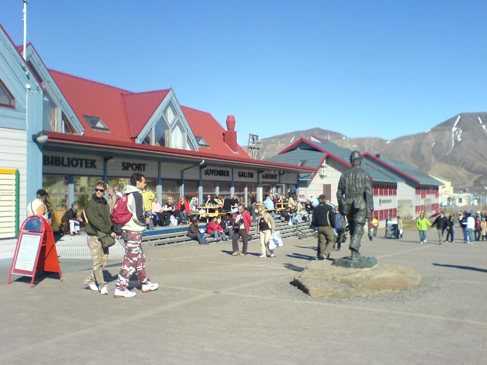 The main street in Longyearbyen, Svalbard (Spitsbergen)